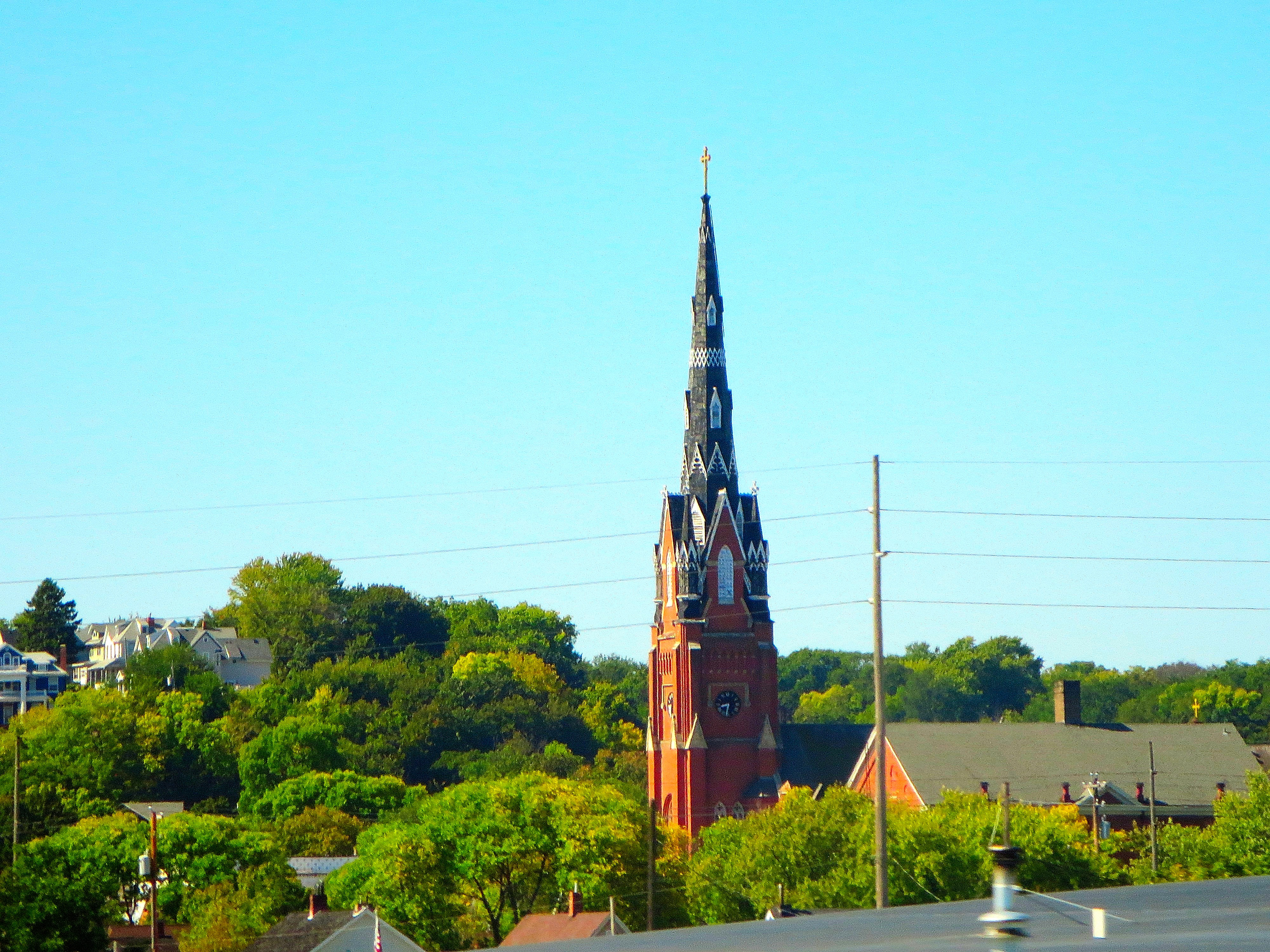 Former St. Mary's Catholic Church